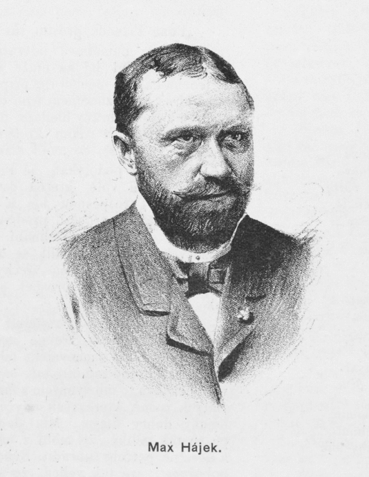 Portrait of Max Hájek (1835-1913), Czech entrepreneur and politician